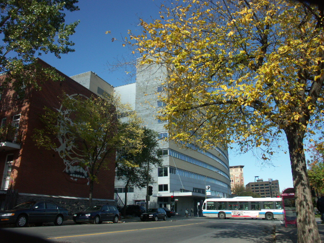 UQAM Président-Kennedy building, Président-Kennedy Avenue in Montreal. Photo by: User:Gene.arboit